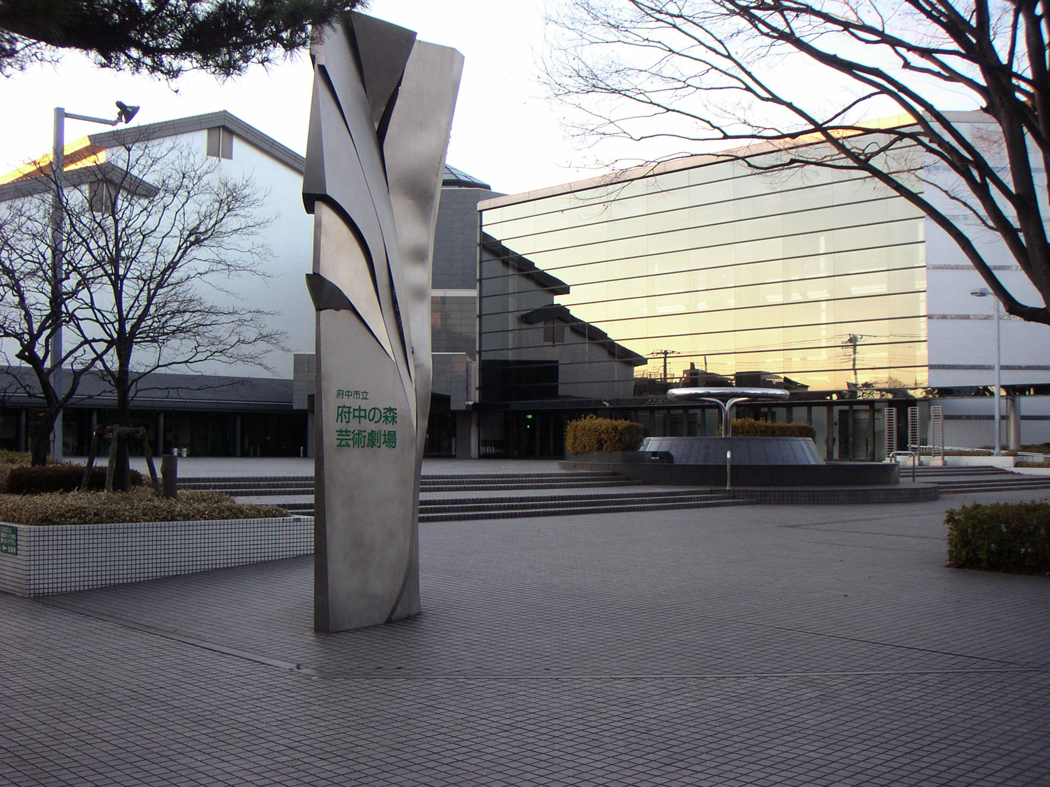 Fuchu-no-mori Theater 府中の森芸術劇場